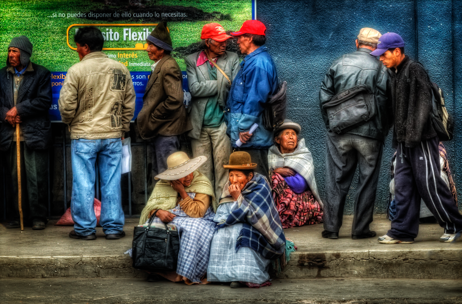 After spending the night in La Paz, the bus picked us up, and up we went to El Alto on our way to Oruro. This scene is typical of El Alto. Nicer large. ISO 200, 100mm, f5.6, 1/200. Shot from the bus. Tonemapped using Photomatix details enhancer. Then Nik Pro Contrast, Tonal Contrast except the walls and sidewalk, and 60% Glamour Glow. Clonned out a fellow in a yellow jacket on the left, and another one walking out of the photo on the right.